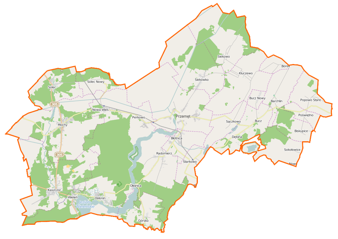 Map of Gmina Przemęt, Poland This map of Przemęt (gmina) was created from OpenStreetMap project data, collected by the community. This map may be incomplete, and may contain errors. Don't rely solely on it for navigation.